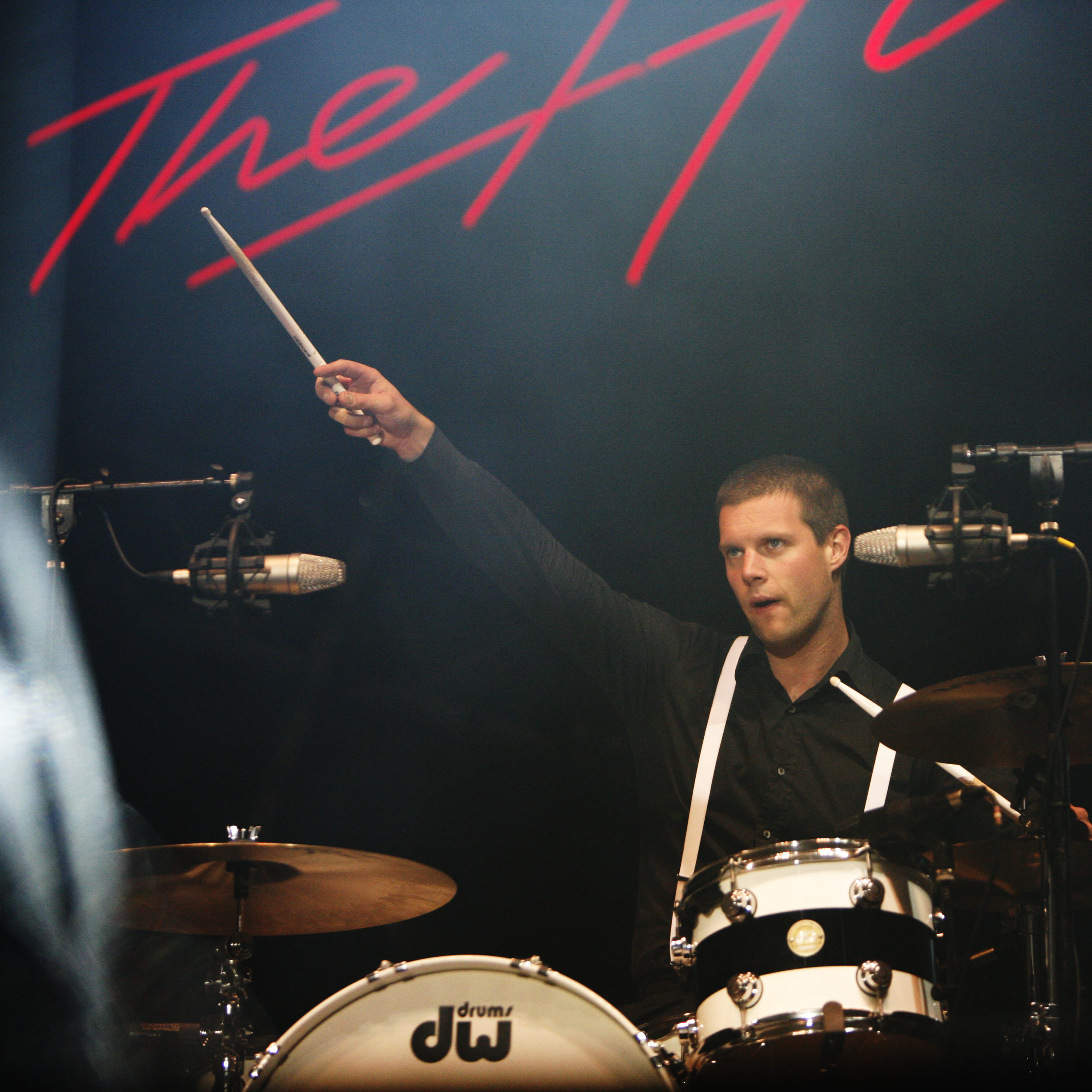 The Hives at the Eurockéennes of 2007